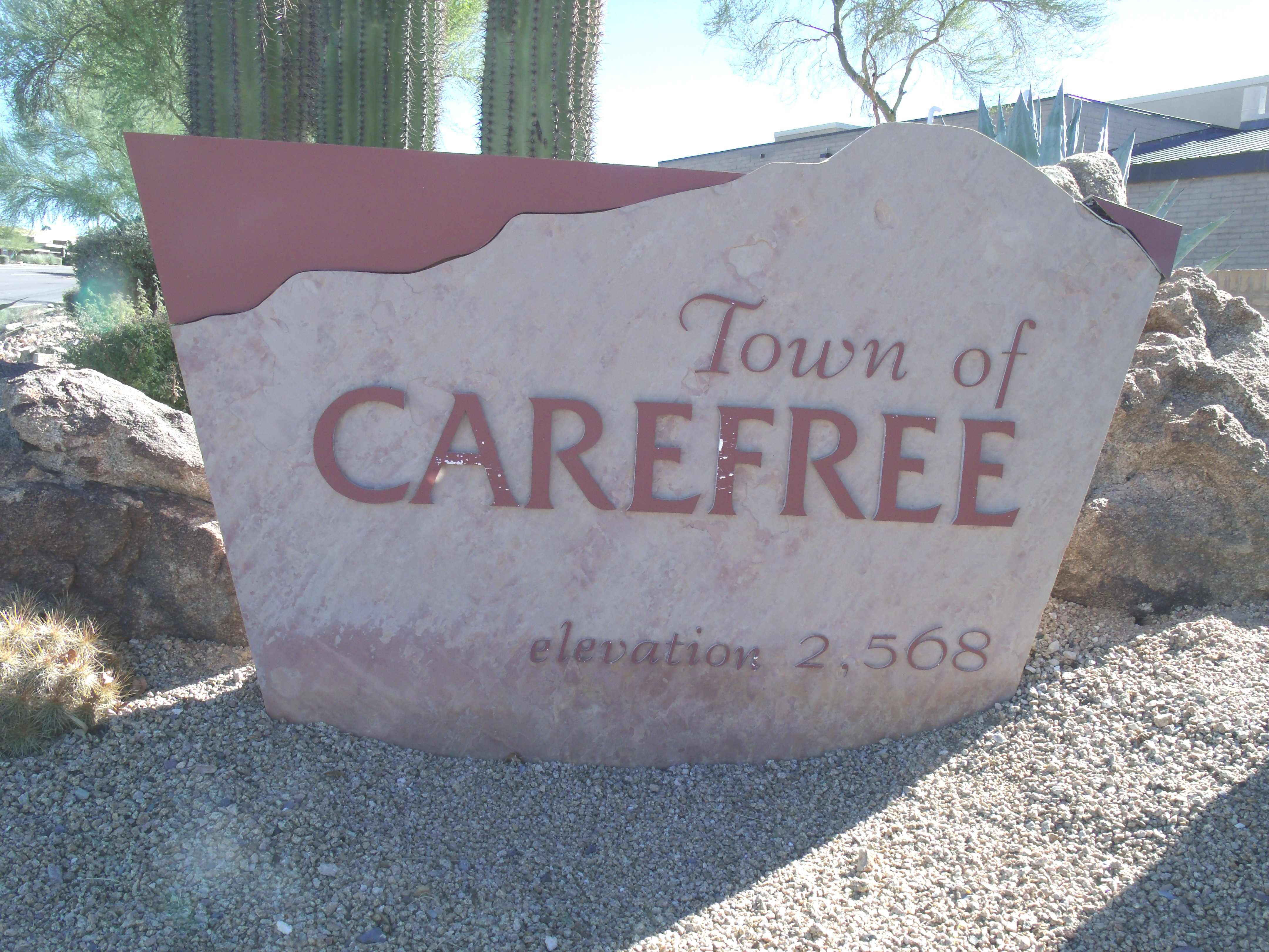 Welcome to the town of Carefree Marker . It is located in Cave Creek Rd. in the entrance of the town of Carefree, Arizona.